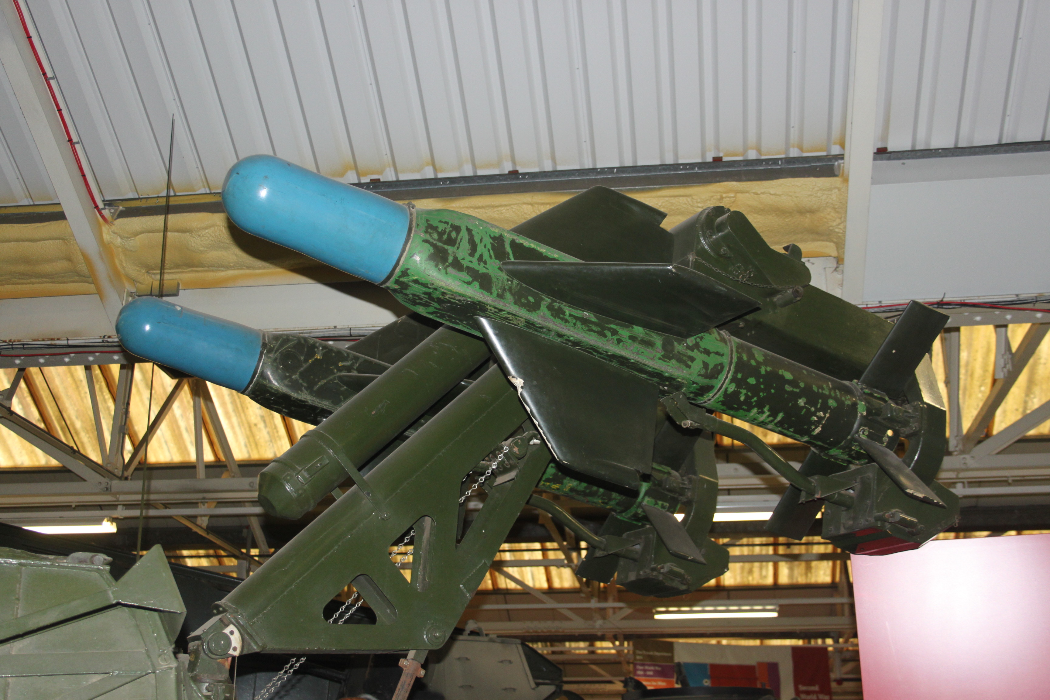 Malkara missiles on a Humber Hornet. Taken at the Tank Museum, Bovington.